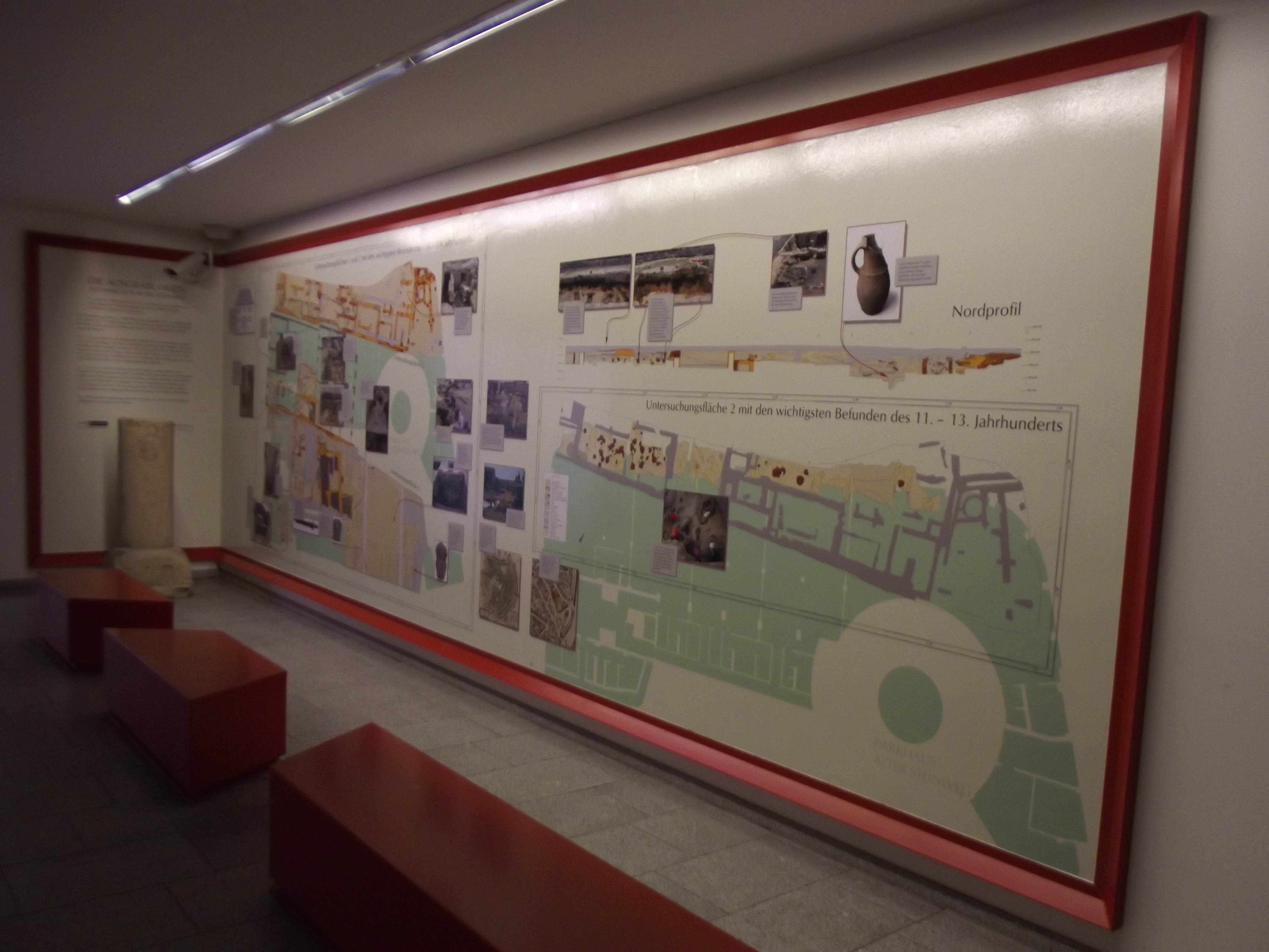 The multi-storey car park Münster, Alter Steinweg, had to postponed after the previous building had been erased. The permanent exhibition in the first floor documents why that was.